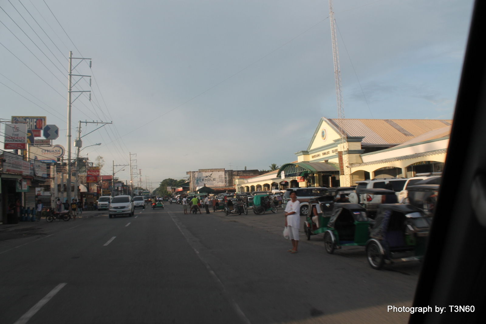 Moncada Town,Tarlac along the highway is public market & town.